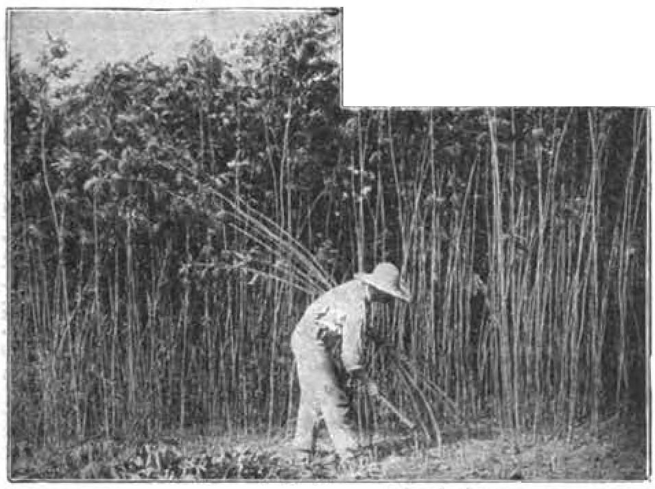 Cutting hemp in Kentucky, from Maury's New Elements of Geography for Primary and Intermediate Classes.